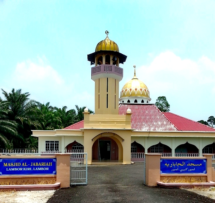 Masjid aljabariah